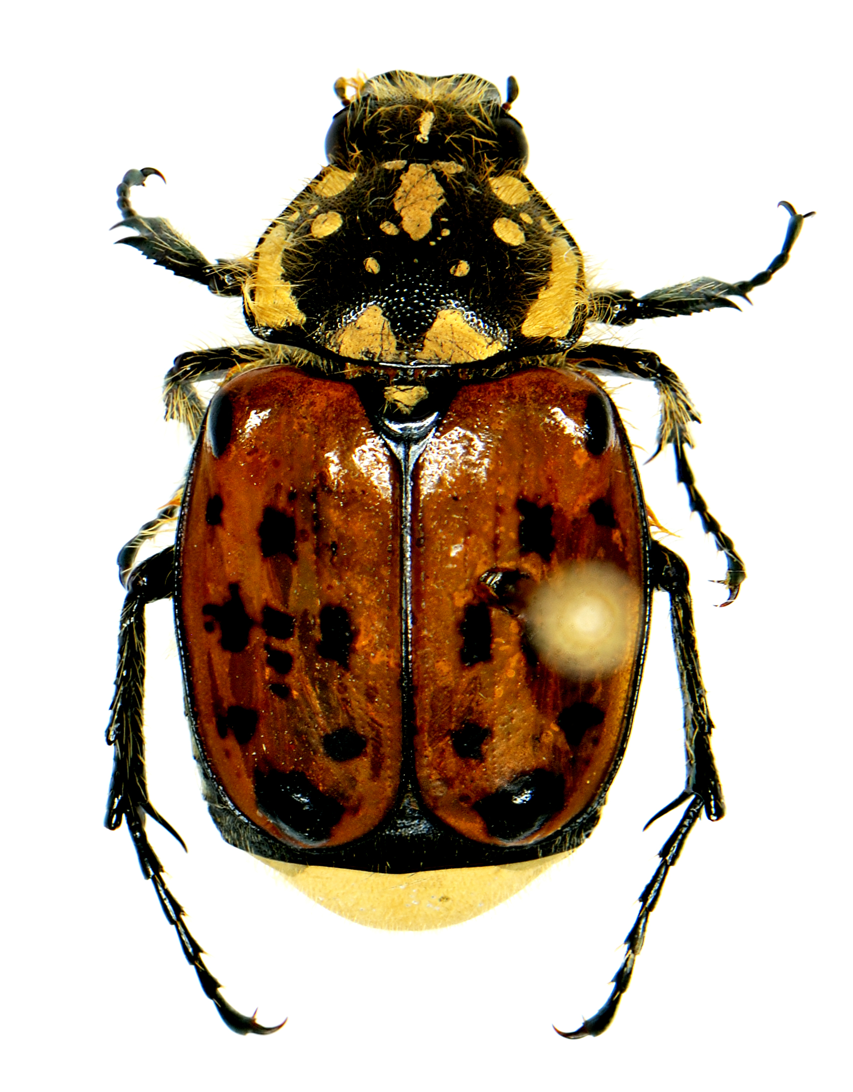 Specimen of Gnorimella maculosa (Knoch), an uncommon scarab beetle. This individual was collected in USA: Connecticut: Middlesex County: Killingworth, in a vane trap baited with 50% ethanol, the trap hung 5 m up a tree at the edge of mixed woods (red maple, poplar, juniper et al.) beside a blueberry patch and hayfield, 17-May to 02-Jun-2002, collector M.K. Oliver, in collection of same. This individual, one of three from the same trap effort, has particularly prominent yellow spotting on the pronotum and a solid yellow pygidium.